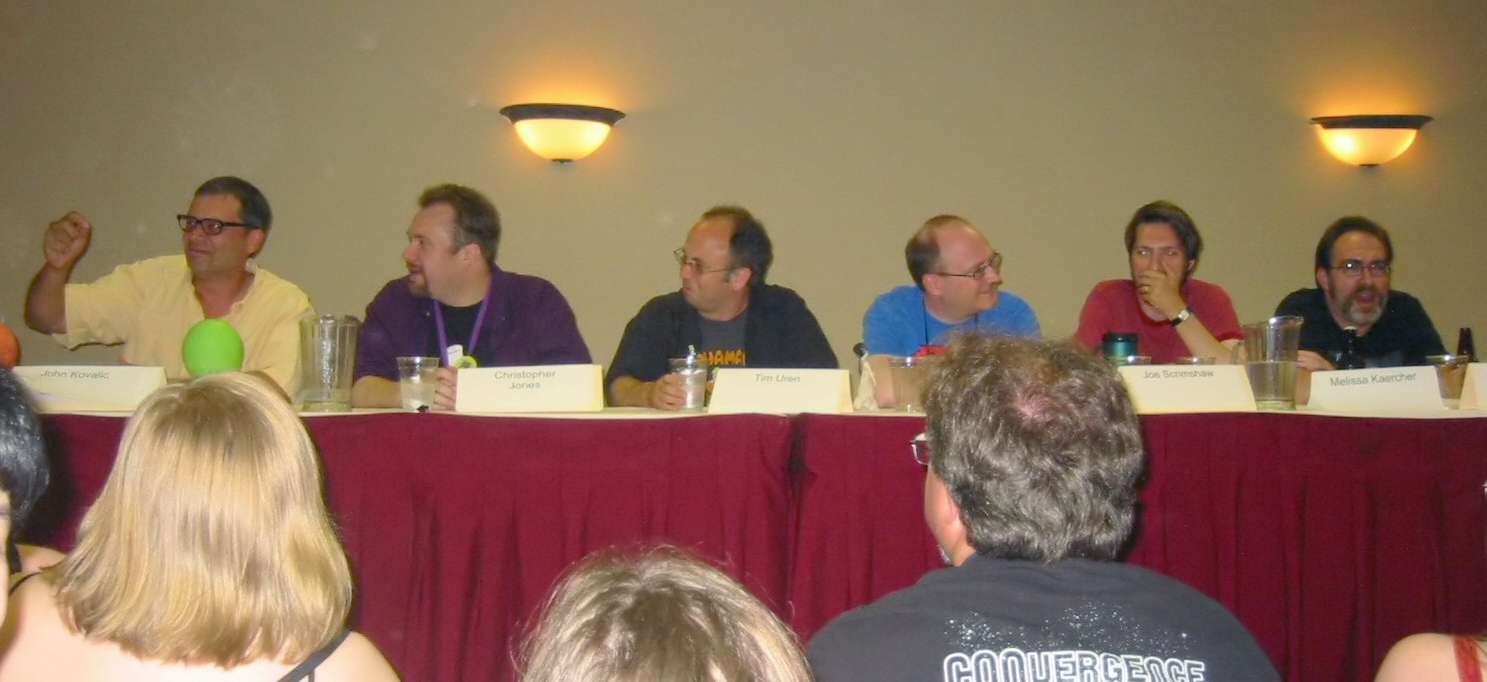 A panel of experts at Convergence (convention) in July of 2007. Cartoonist John Kovalic is at the far left, comic book artist Christopher Jones (comics) is second to the left, and author Brian Keene is at the far right.